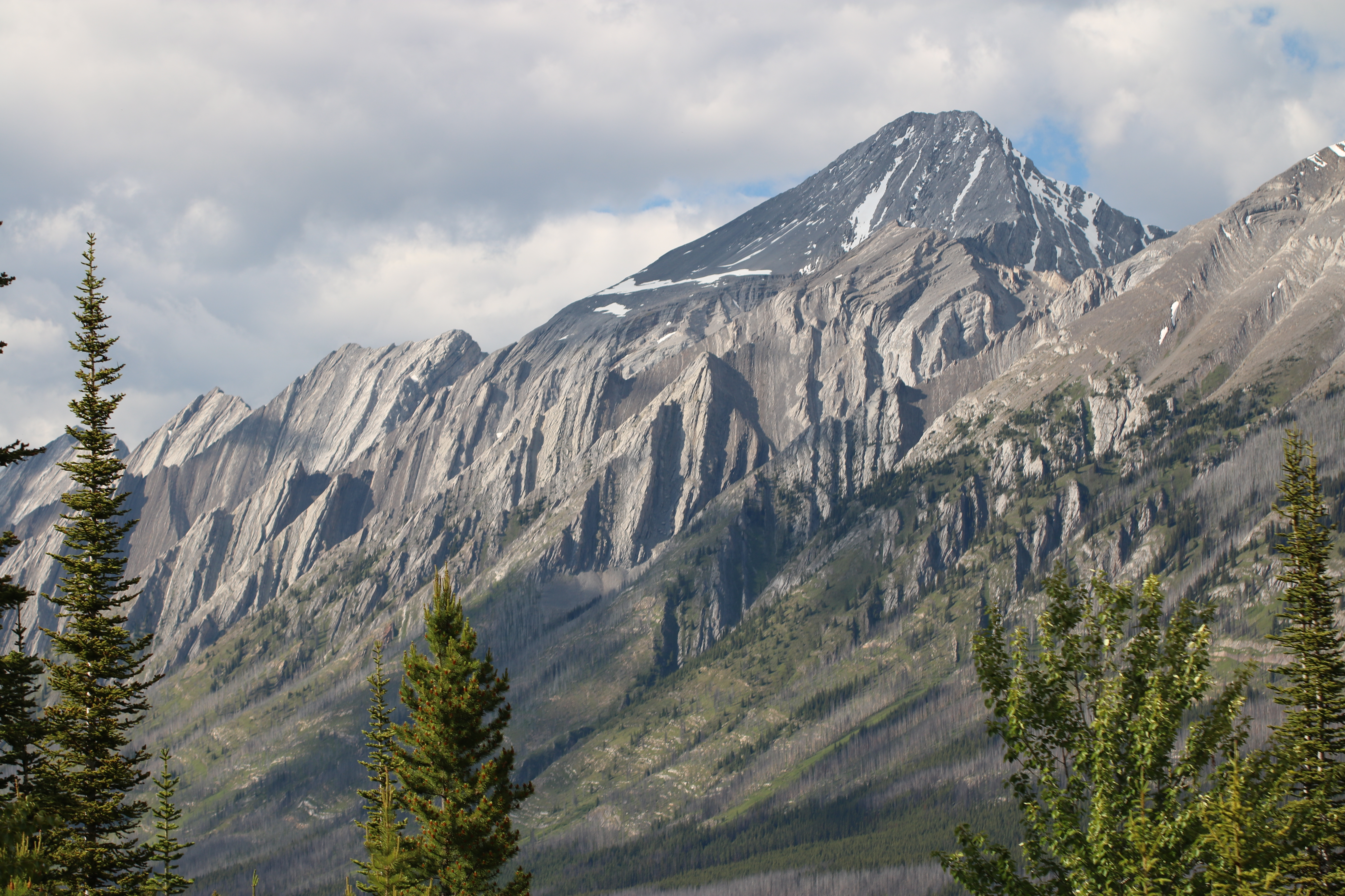 Some of the mountain peaks along this trail are amazing in this light and add to the wonder of the trails for sure.